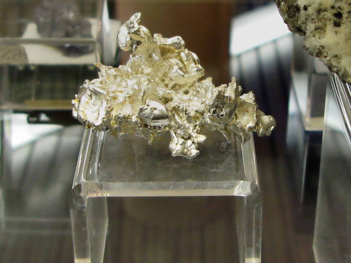 Native Silver (extreme pure), etched out of Calcite from Hua Gans Hui, Liaoning province, China